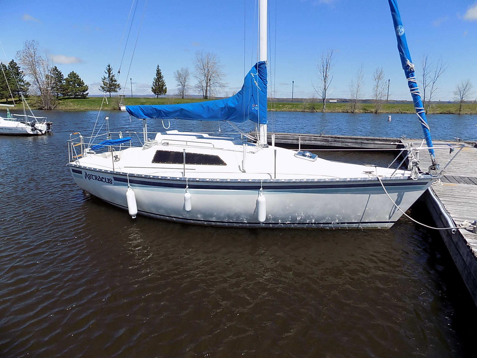 A Kelt 7.6 sailboat named Astraeus